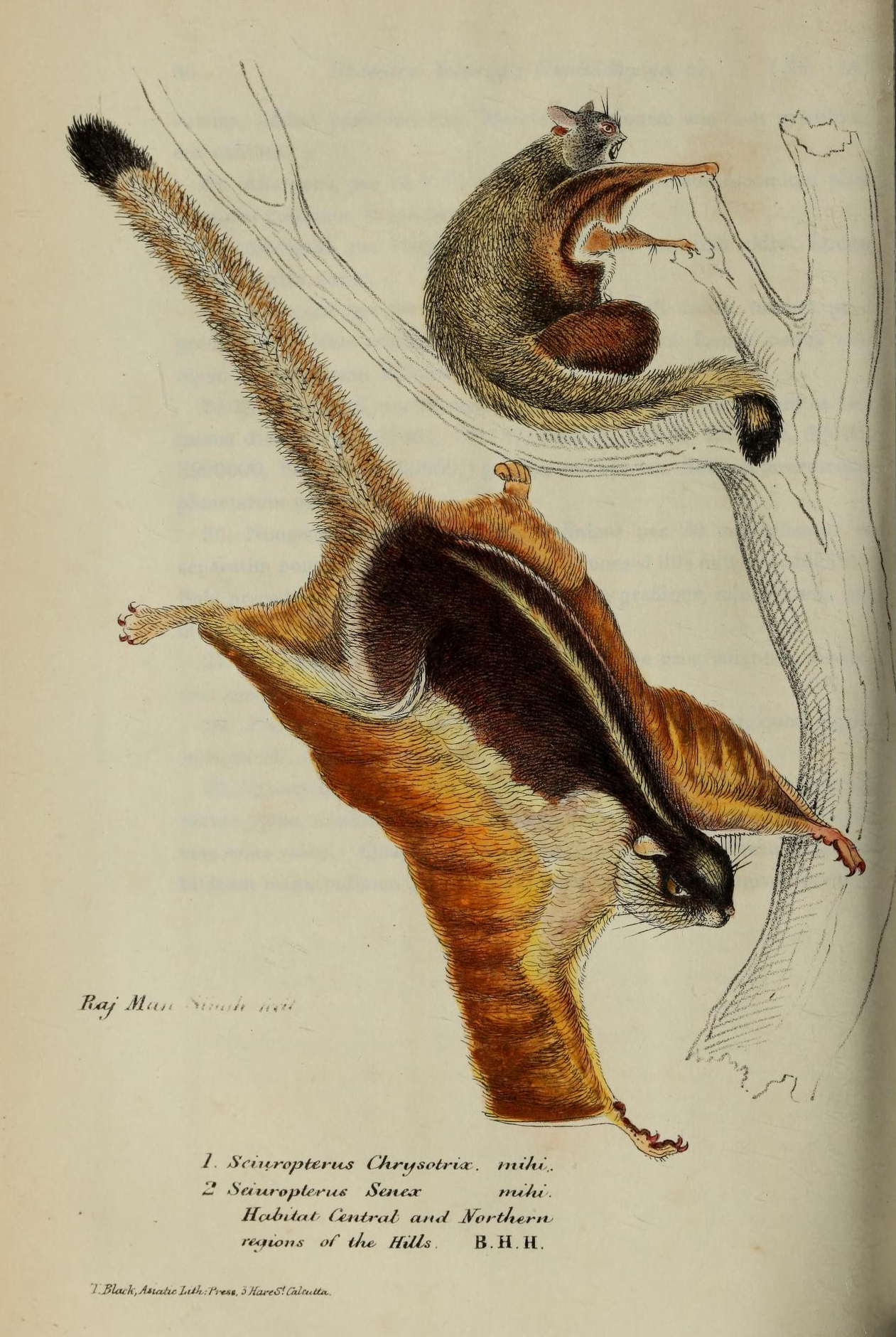 Petaurista elegans caniceps (=Sciuropterus senex, above) and Petaurista nobilis (=Sciuropterus chrysotis, below) illustrated by Raj Man Singh